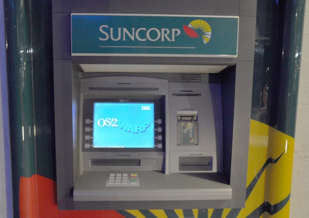 Automated teller machine located in Fairfield (Brisbane, Queensland, Australia) showing the loading screen for its operating system, OS/2. This particular ATM was faulty and kept rebooting every time it went to dispense cash.